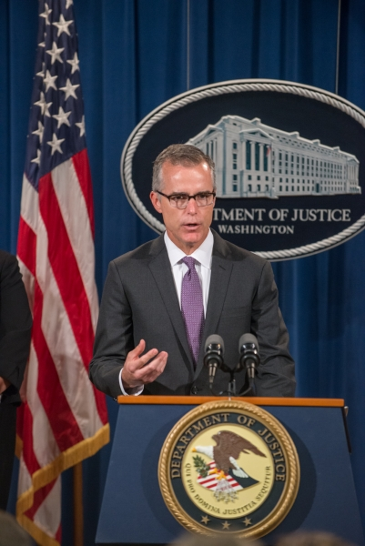 Assistant Director in Charge Andrew G. McCabe of the FBI’s Washington Field Office speaks at the press conference on Foreign Exchange Spot Market Manipulation